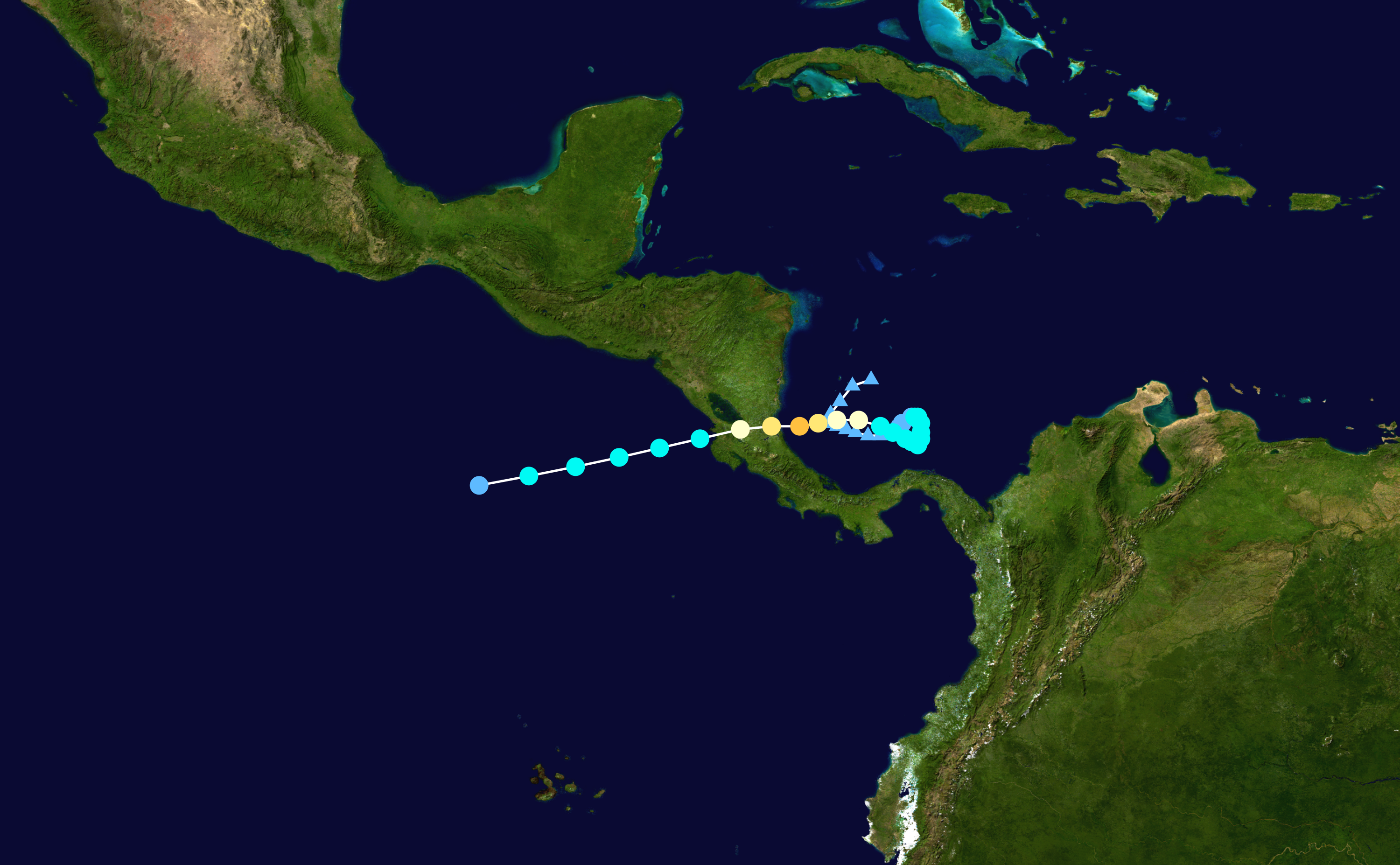 Track map of Hurricane Otto of the 2016 Atlantic hurricane season. The points show the location of the storm at 6-hour intervals. The colour represents the storm's maximum sustained wind speeds as classified in the Saffir–Simpson scale (see below), and the shape of the data points represent the nature of the storm, according to the legend below. Saffir–Simpson scale Tropical depression≤38 mph≤62 km/h Category 3111–129 mph178–208 km/h Tropical storm39–73 mph63–118 km/h Category 4130–156 mph209–251 km/h Category 174–95 mph119–153 km/h Category 5≥157 mph≥252 km/h Category 296–110 mph154–177 km/h Unknown Storm type Tropical cyclone Subtropical cyclone Extratropical cyclone / Remnant low / Tropical disturbance / Monsoon depression